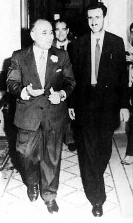 Saeb Salam and Kamal Jumblatt, leaders of the Lebanese opposition, at Shukri al-Quwatli's office in 1957. Quwatli promised them to assist in overthrowing the regime of Kamil Shamoun, accusing it of being pro-American, anti-Nasser, and anti-Arab nationalist. Photo prise avec l'autorisation du webmaster du site